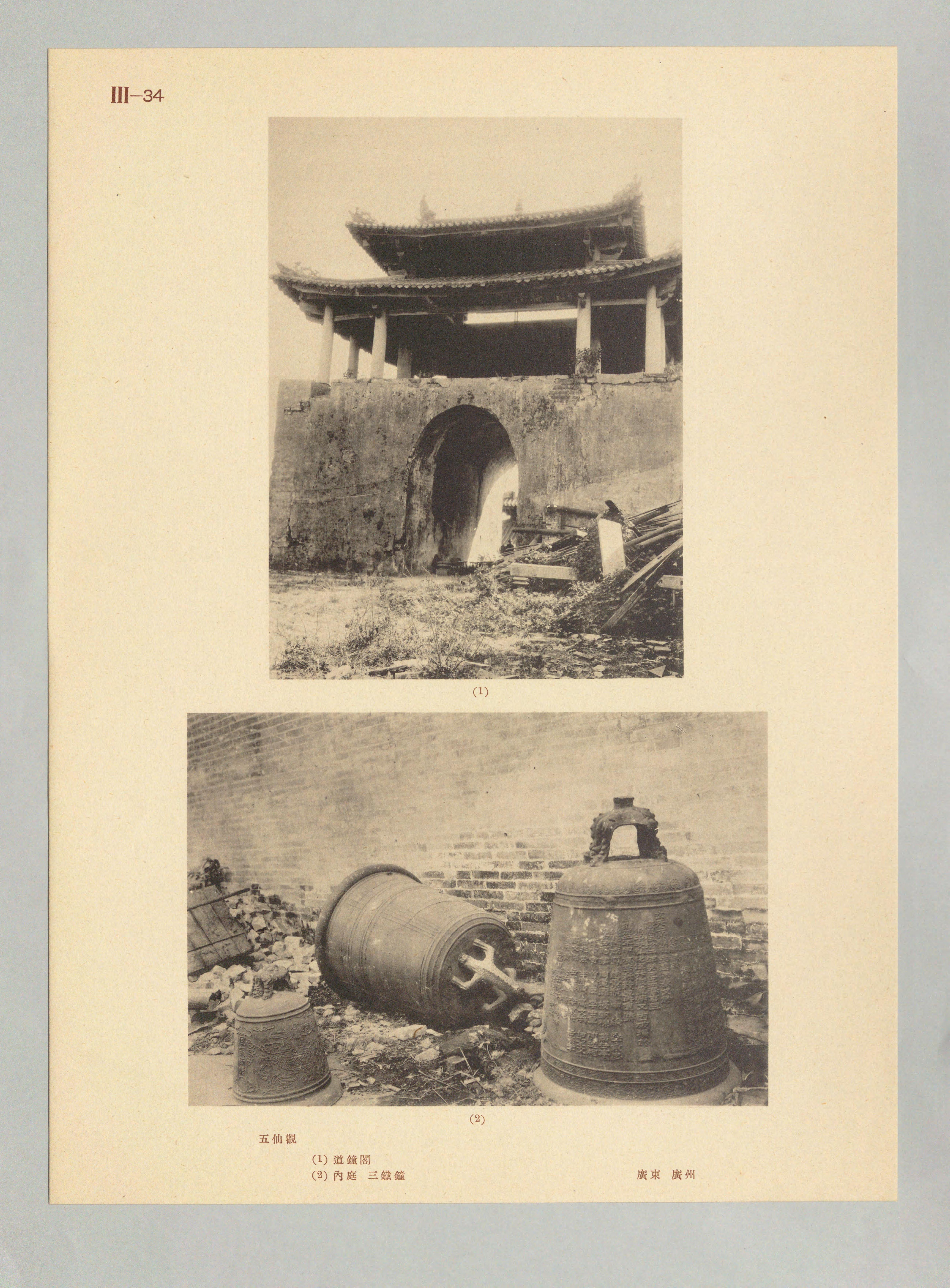 The Daozhong Pavilion and the Interior of the hall, with the three iron bells, in the Temple of the Five Immortals in Guangzhou